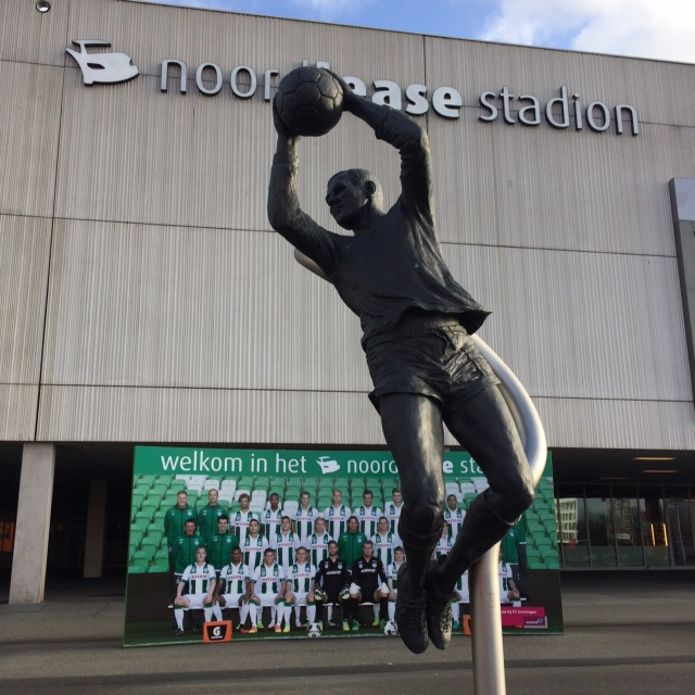 Statue of former goalkeeper Tonny van Leeuwen in front of the FC Groningen stadium in the Netherlands.